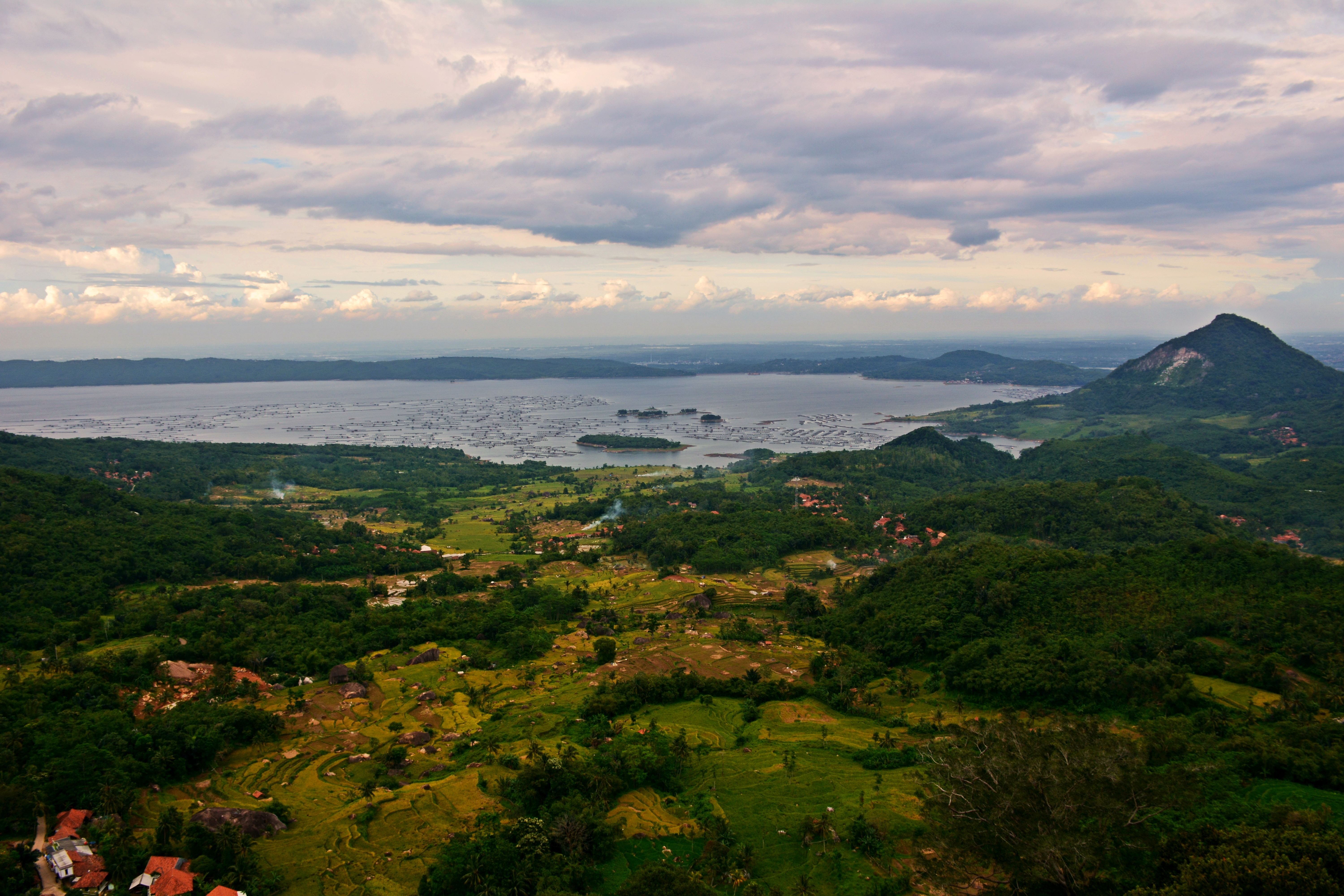 Another view of Jatiluhur Reservoir viewed from the cliff of Parang Mountain